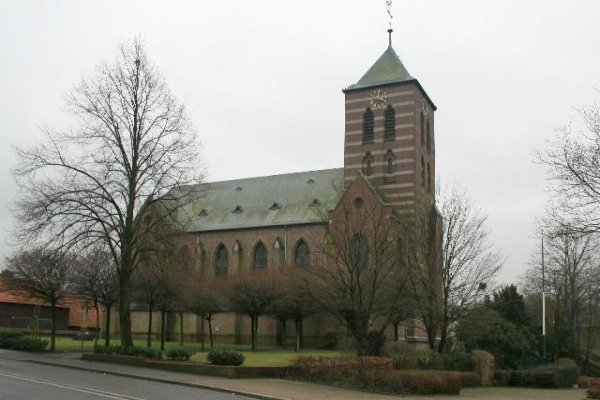 Cultural heritage monument No. 6 in Selfkant